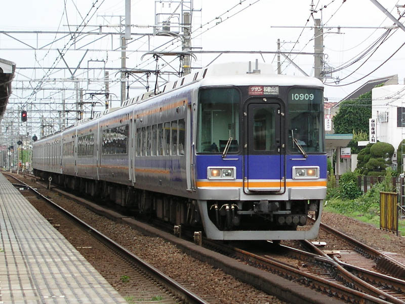 Nankai Electric Railway type 10000